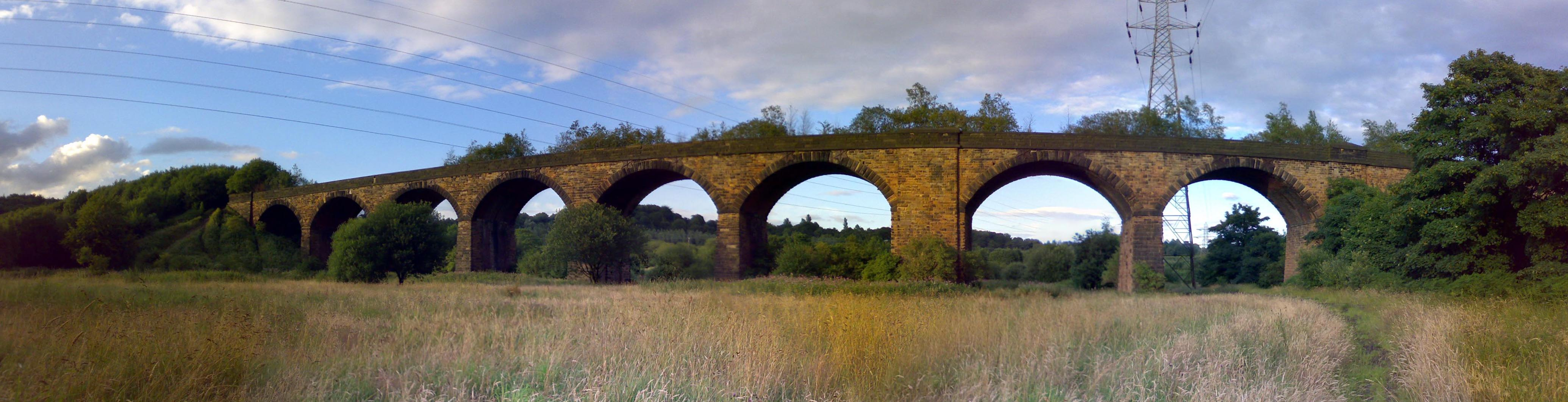 Panoramic view of Clifton Viaduct, looking north. The Irwell is to the right out of frame. This viaduct is currently disused and closed to the public. It is possible to get through the fences though and walk across.